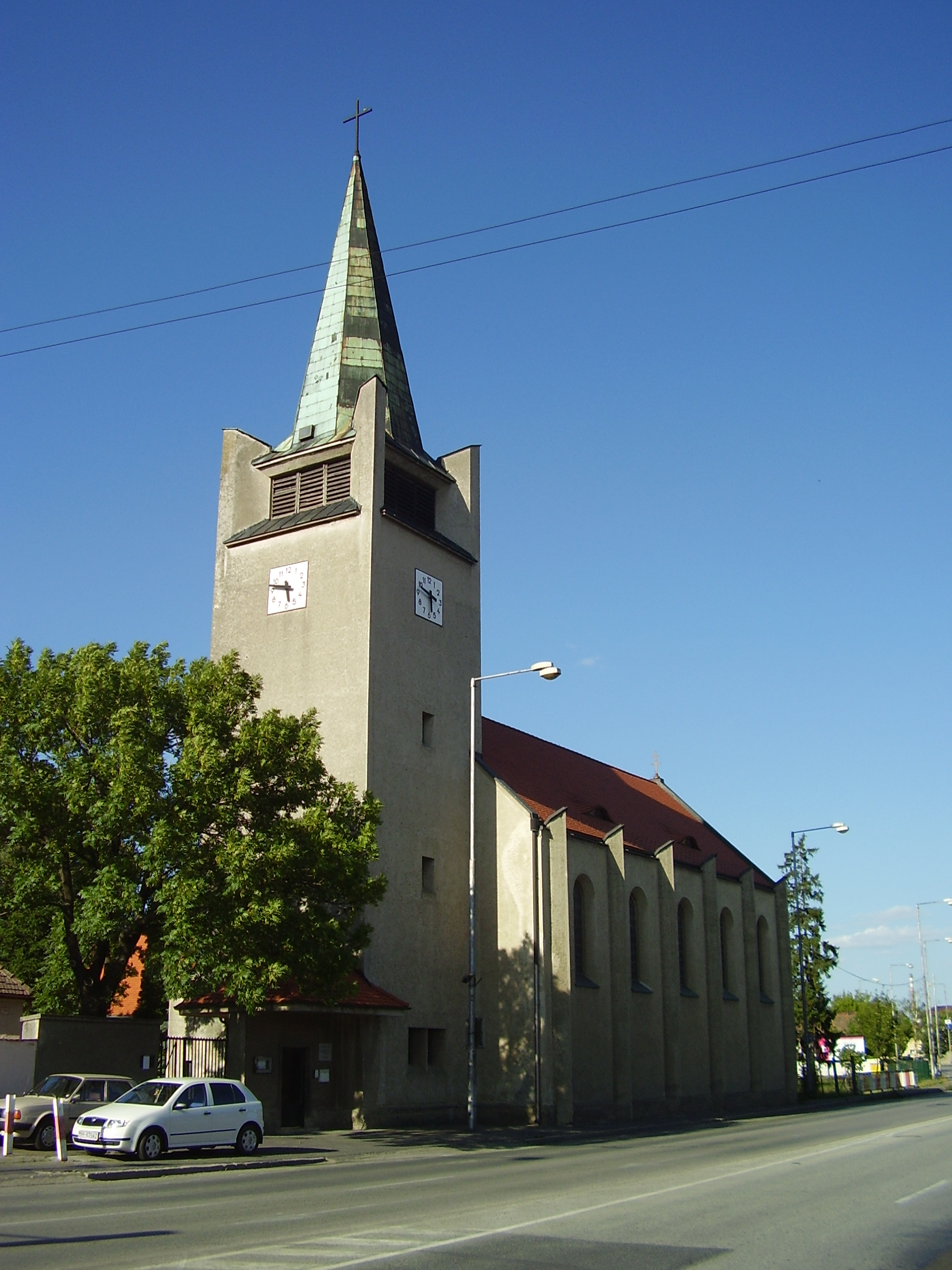 Church of Grinava, Pezinok District, Bratislava Region, Slovakia